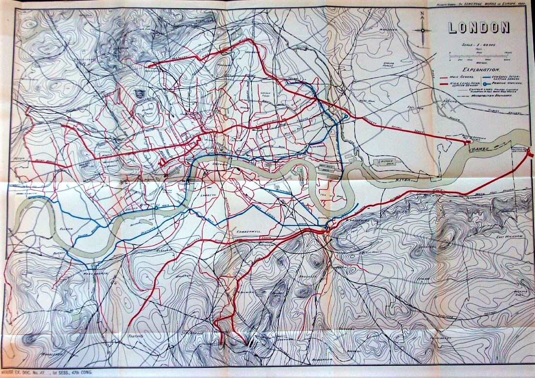 Map of the London sewerage system developed by Joseph Bazalgette 1858-1870. Image downloaded from Rootsweb